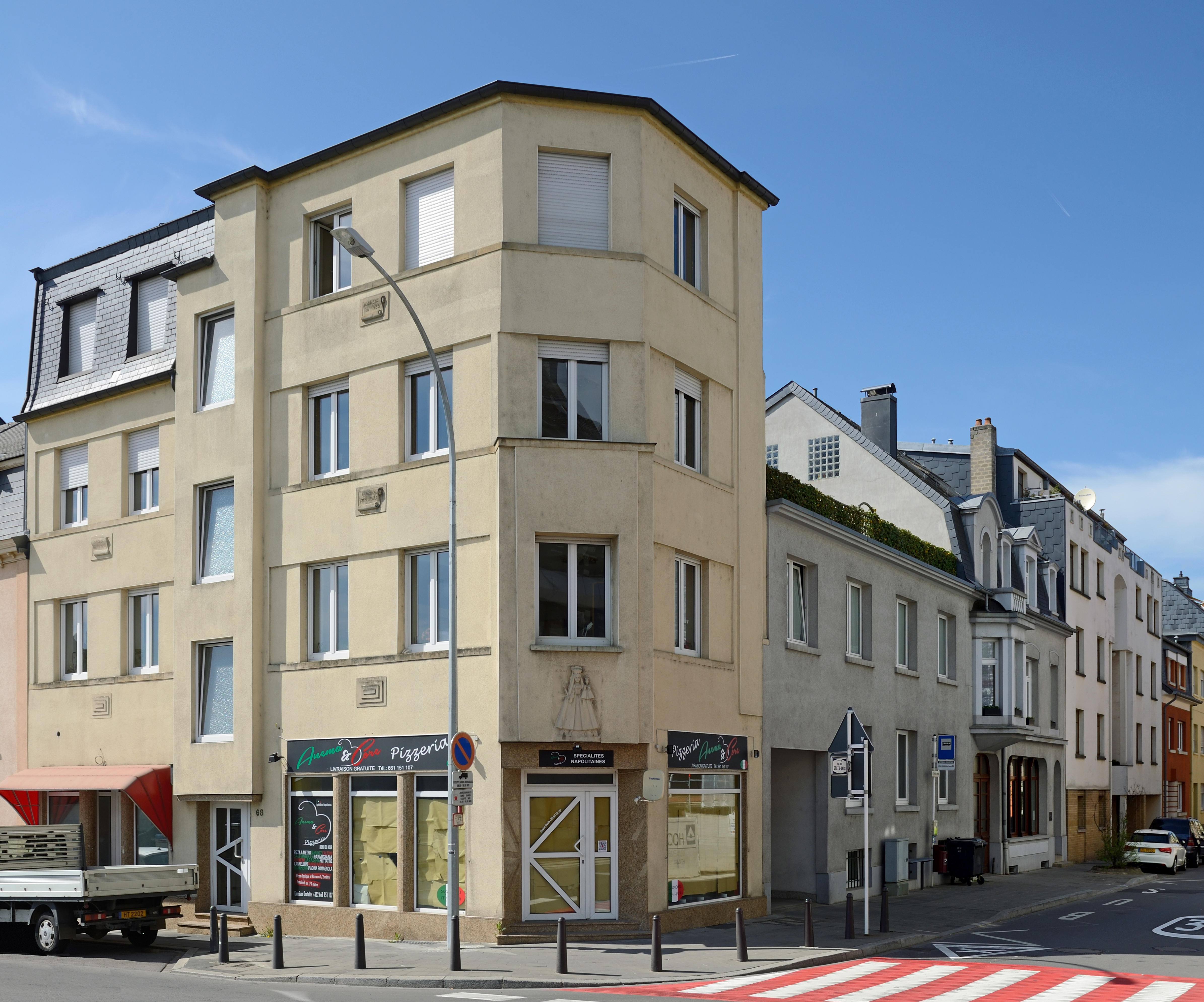 Luxembourg City, 68, rue de Strasbourg: building with a relief of Our Lady of Kevelaer.